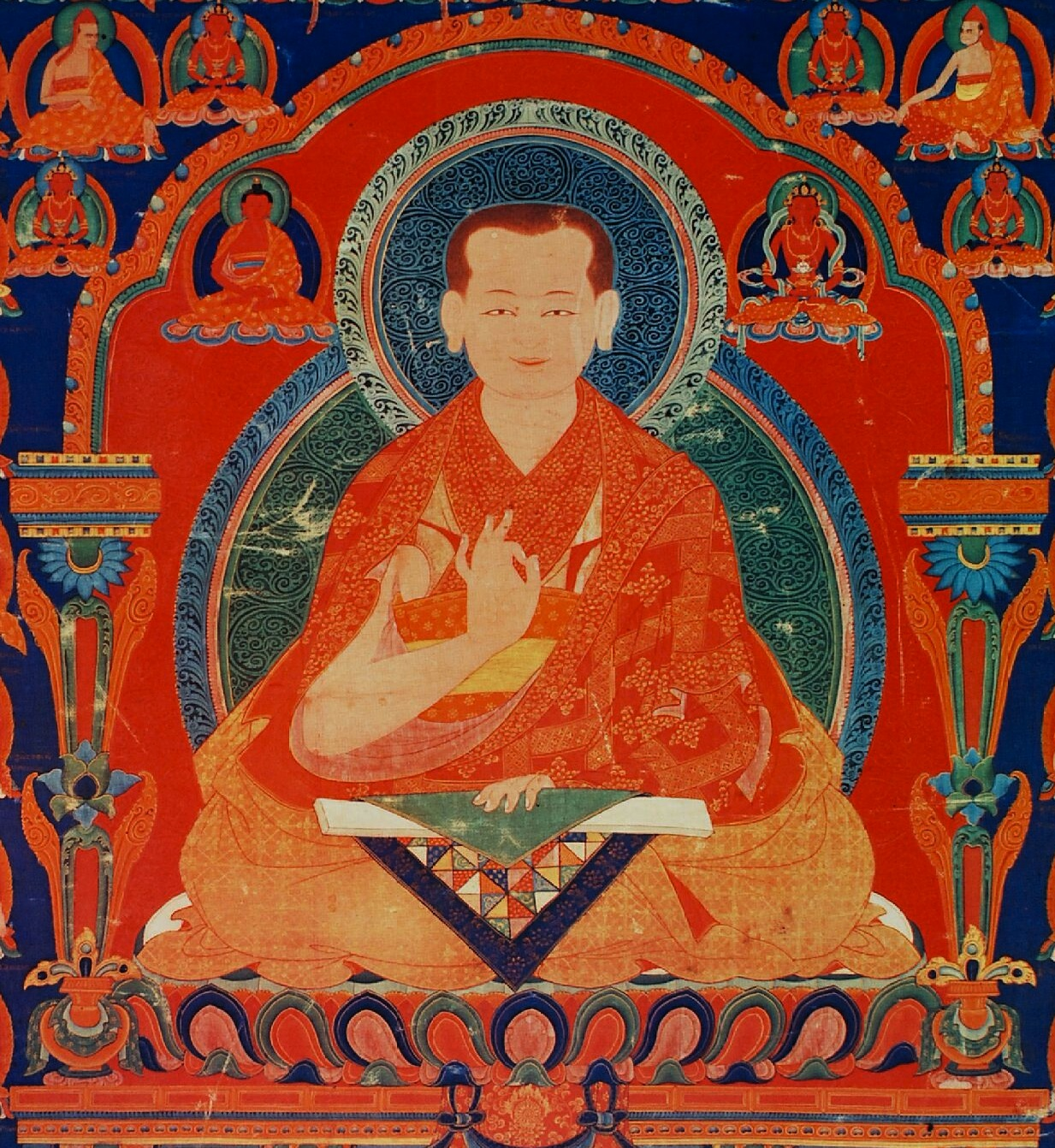 Rongton Sheja Kunrik (b.1367 - d.1449) famous tibetan teacher